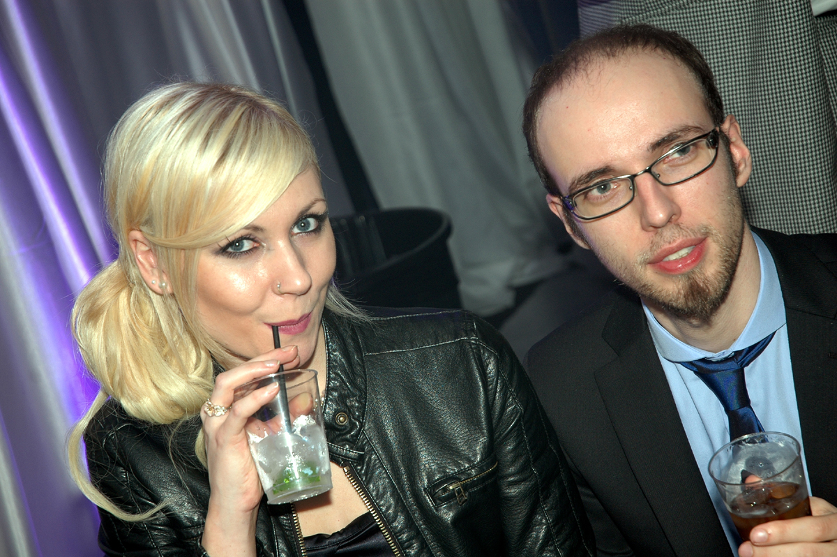 HerzDame at James Cameron Party after Oskar 2014